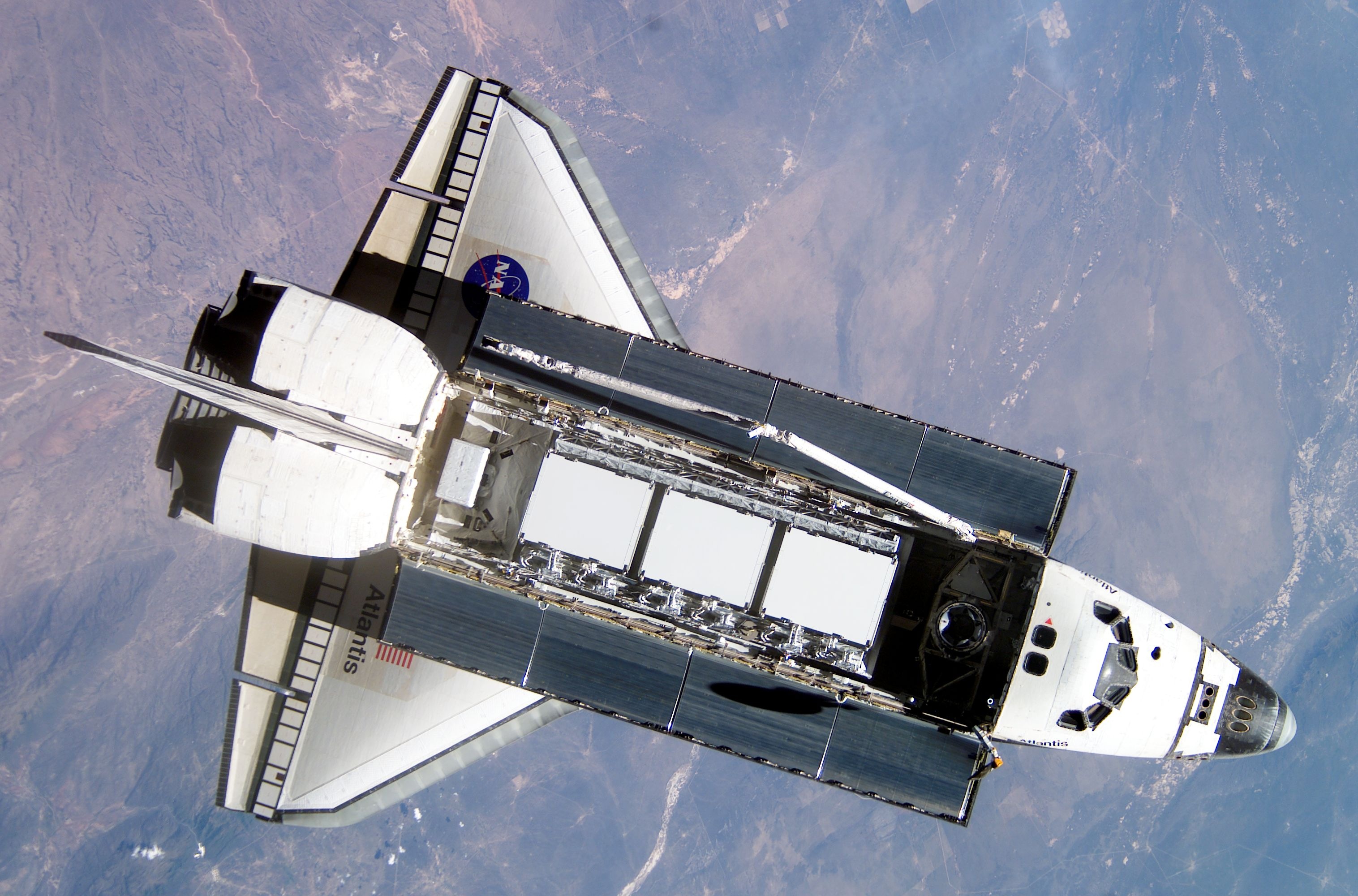 Atlantis carrying the S1 Truss segment shortly before docking to the International Space Station, on mission STS-112. NASA photo ISS005-E-16524 take October 9, 2002. :This view of the Space Shuttle Atlantis was photographed by an Expedition Five crewmember onboard the International Space Station (ISS) during rendezvous and docking operations. Docking occurred at 10:17 a.m. (CDT) on October 9, 2002. The S1 (S-One) Truss, which is scheduled to be attached to the station and outfitted during three spacewalks, can be seen in Atlantis’ cargo bay. Notice the Canadarm can also be seen near the top of the cargo bay.